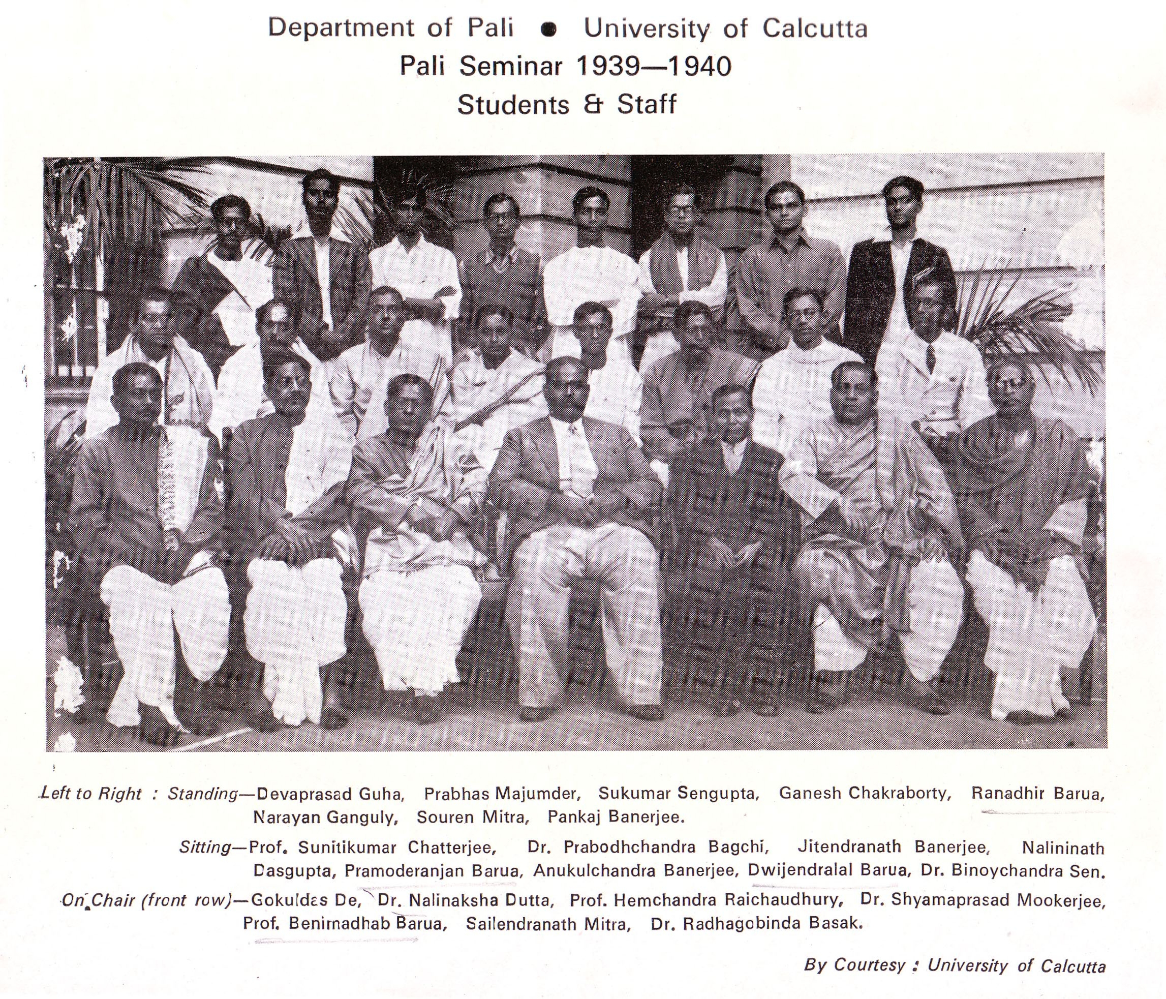 B.M.Barua with students in a seminar